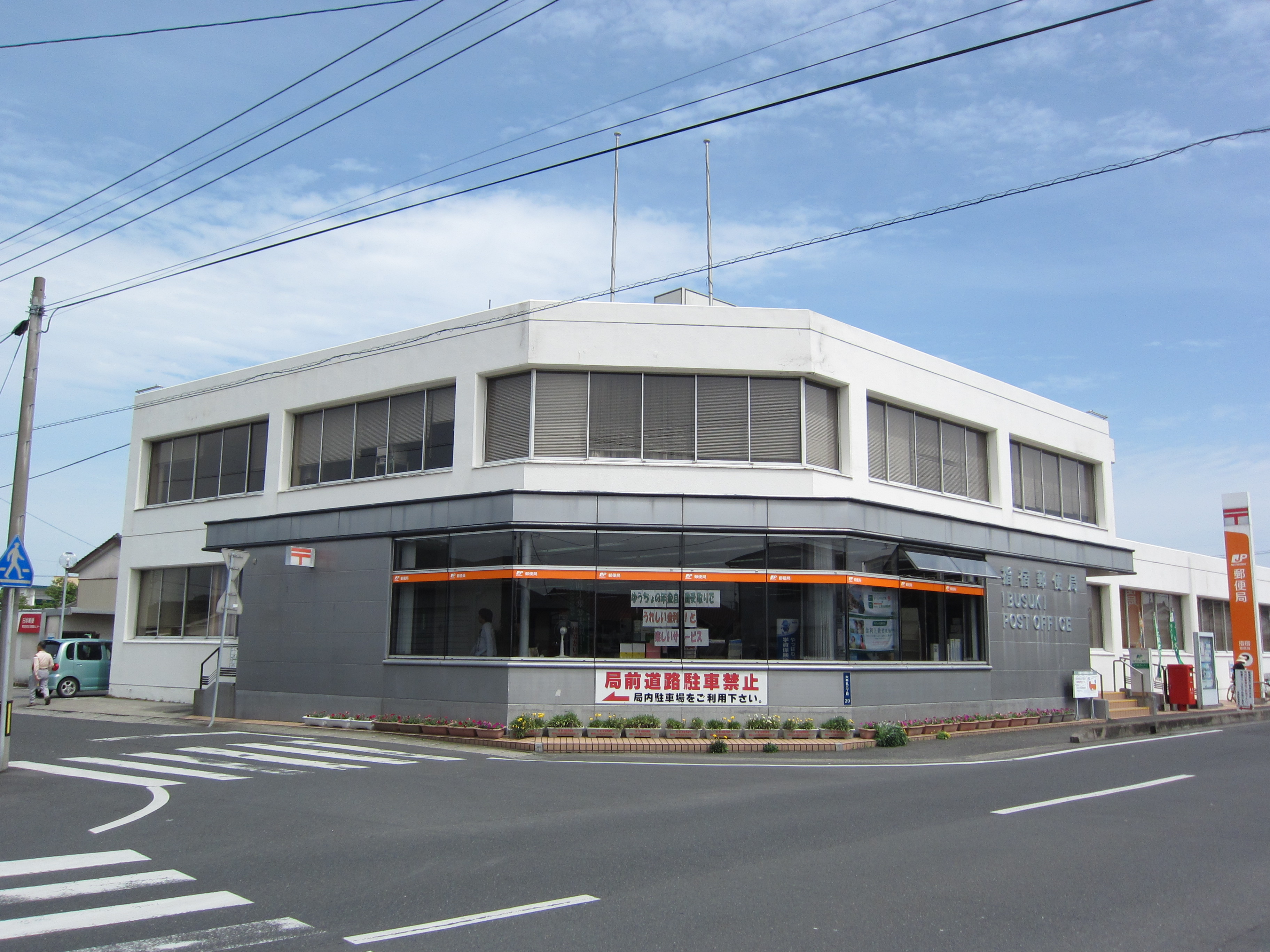 Kagoshima Ibusuki Postoffice